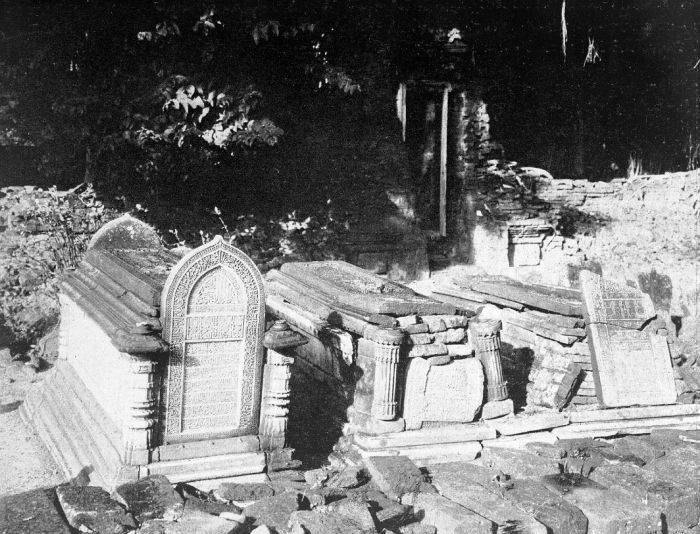 The grave of Maulana Malik Ibrahim, who died in 1419